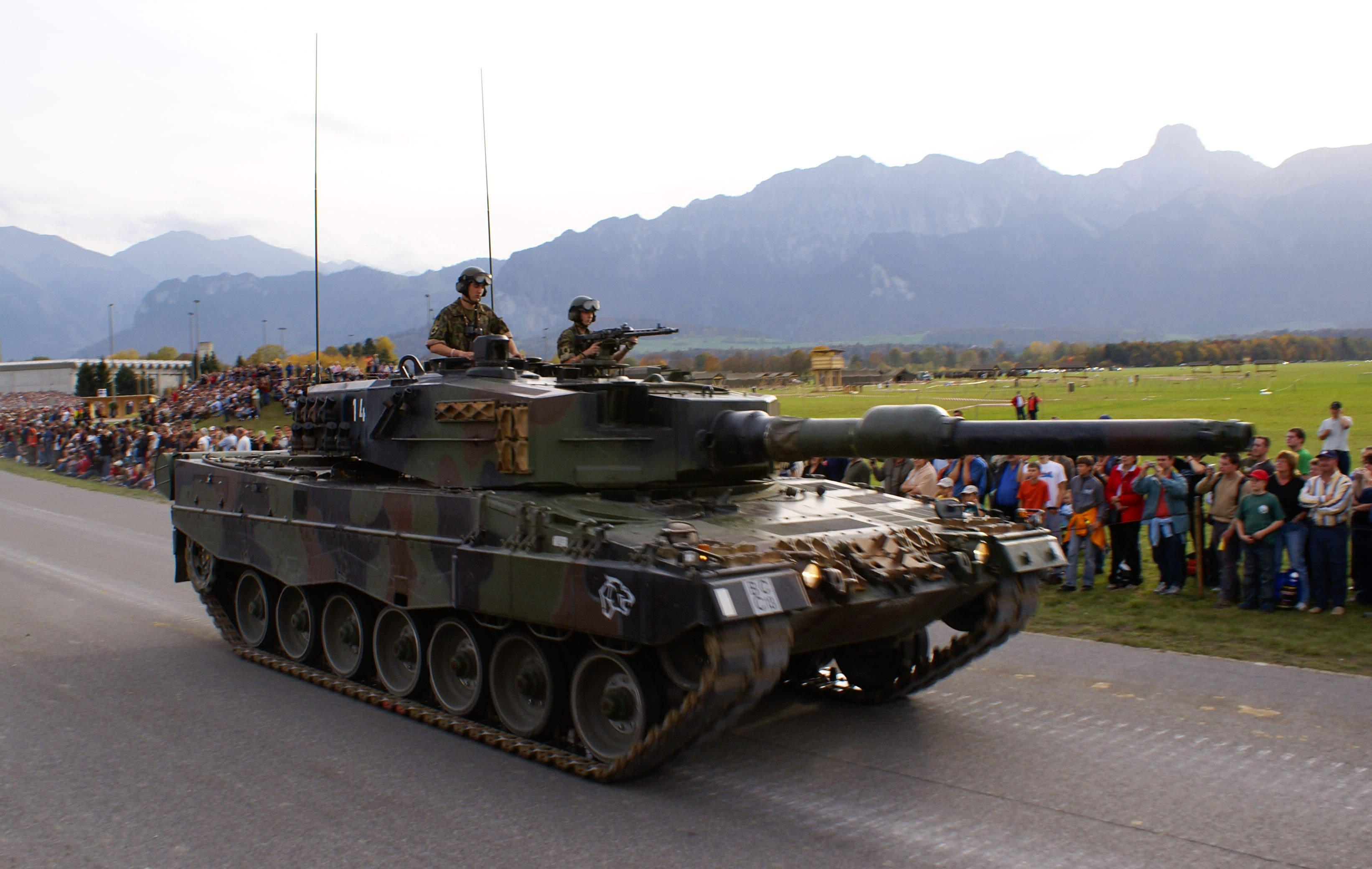 Swiss Army. Leopard 2 / 2A4 main battle tank. Participating in the "Steel Parade" of the 2006 Army Days, Thun.